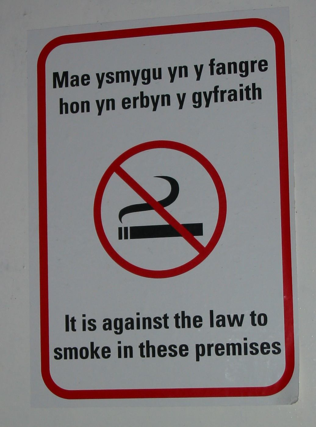 Bangor, Wales, railway station